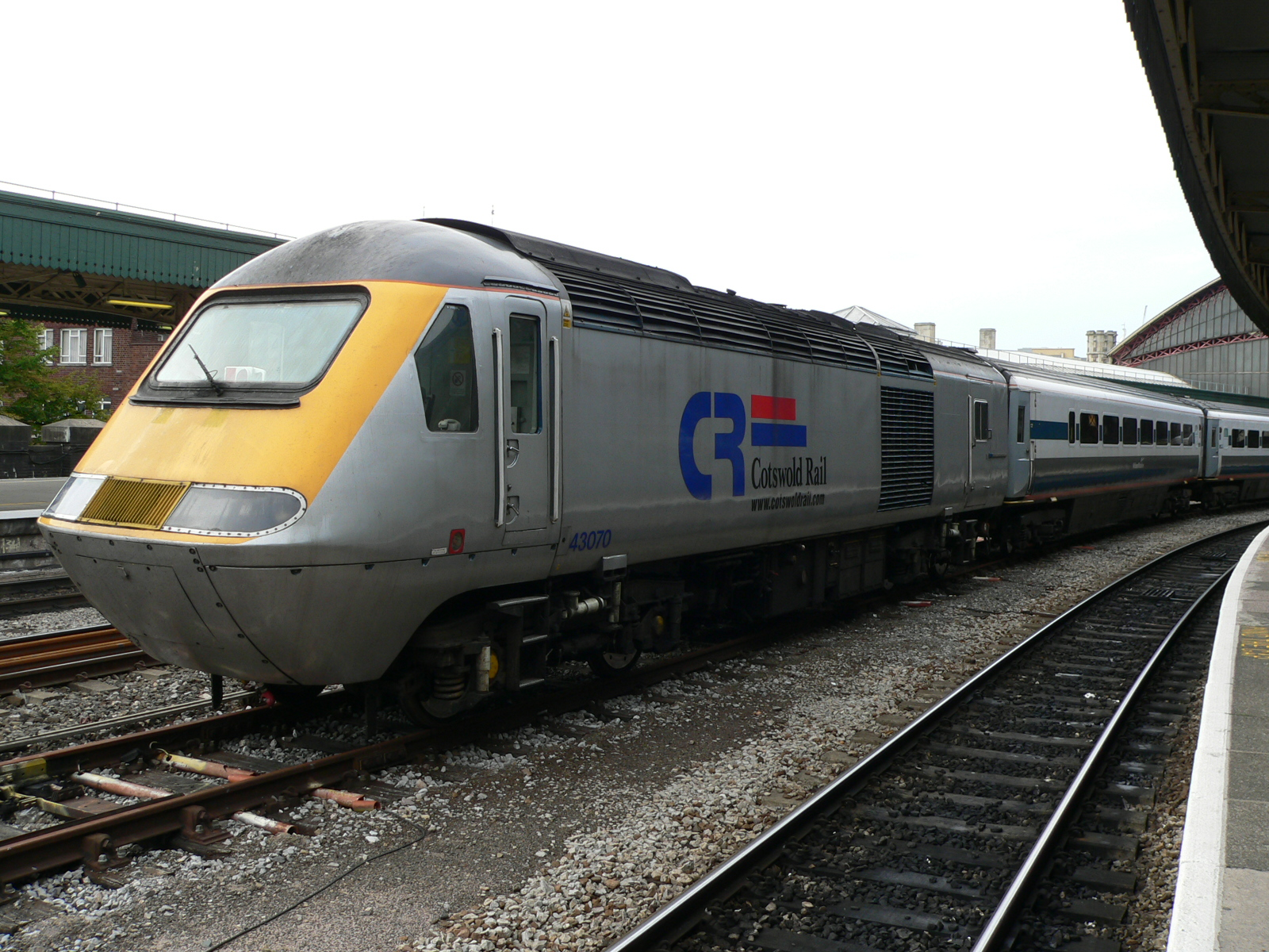 Cotswold Rail HST powercar 43070 in their corporate silver livery at the southern end of one of the through roads between platforms 3/4 and 5/6 at Bristol Temple Meads railway station. The coaches are in Midland Mainline livery.